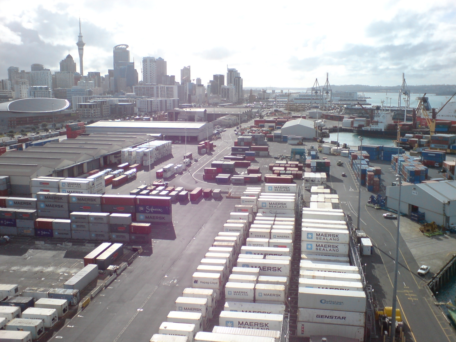 View west-southwestwards from one of the cranes at Ports of Auckland in Auckland City, New Zealand.